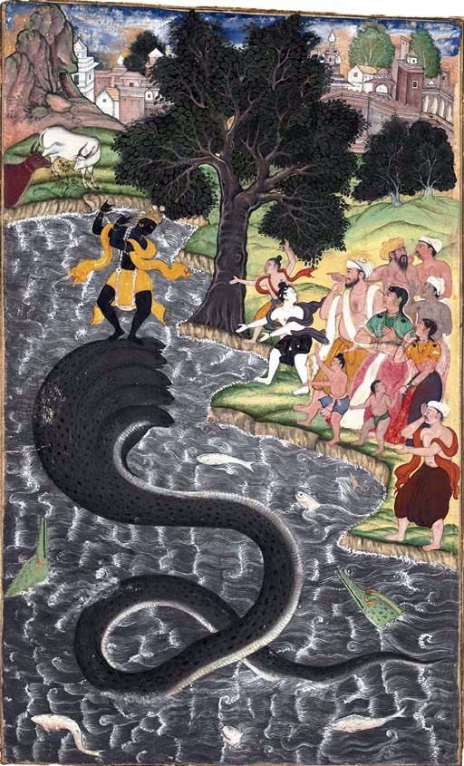 Mughal miniature version, c.1590-95 (downloaded Sept. 2005) "KRISHNA DANCING ON THE HEAD OF KALIYA. Imperial Mughal School, India, circa 1590-1595. An illustration from the Harivamsa, an appendix of Razmnama gouache with silver on paper, the figure of Krishna in yellow robes holding a flute to his mouth and dancing on the head of the serpent Kaliya, while Balarama and an amazed crowd watch from the riverbank, with two cattle and cityscape in the distance, the silver of the river and of Kaliya oxidised, the reverse with lines of elegant black nasta'liq text within gold clouds, gold, blue and black ruled margins, very slight flaking in places, small tear. Miniature 7¾ x 12¾in. (29 x 32.2cm.)."